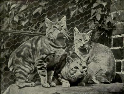 Manx and Abyssinian